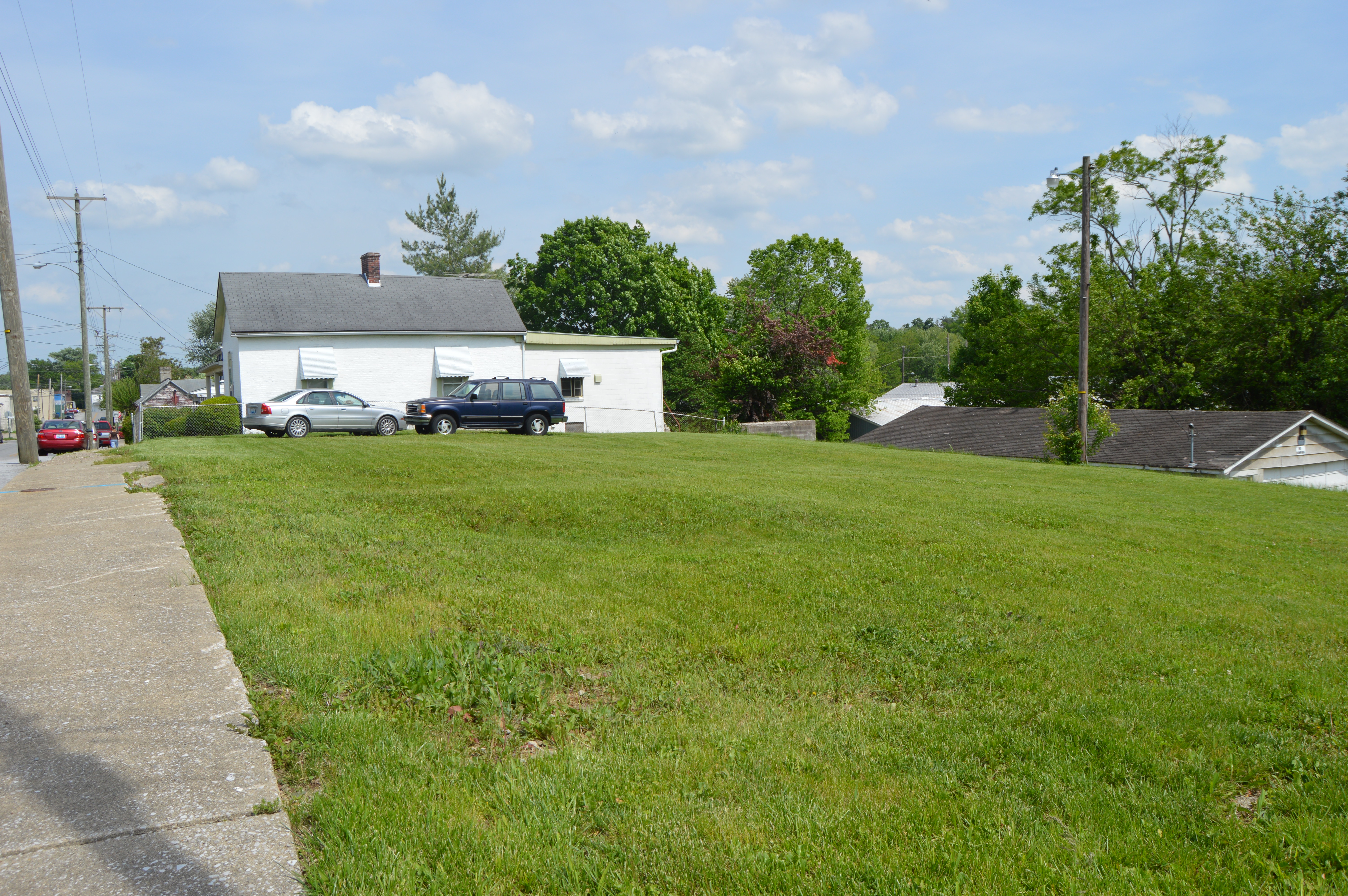 An empty lot on the southeastern corner of the junction of Fourth and Henry Clay Streets in Shelbyville, Kentucky, United States. This was formerly the site of the Saffell Funeral Home, which was listed on the National Register of Historic Places in 1984; it has not yet been removed, despite its destruction.